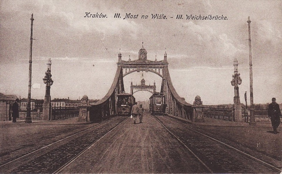 tramwaje na III moście